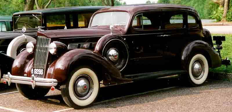 Packard One-Twenty model 120-C Touring Sedan; body style #1092 (1937) Eight 4-Door Sedan